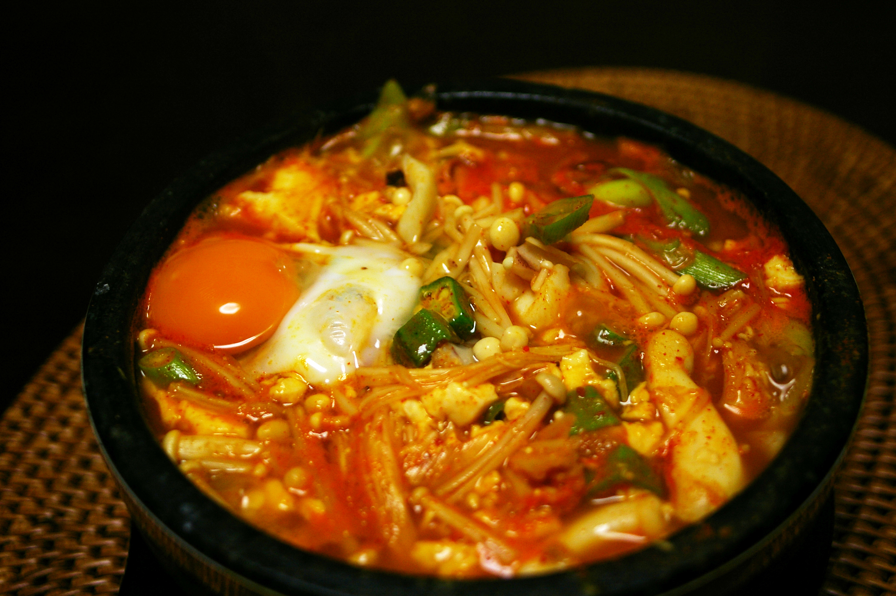 Sundubu jjigae(순두부찌개), a Korean stew made with uncurd tofu